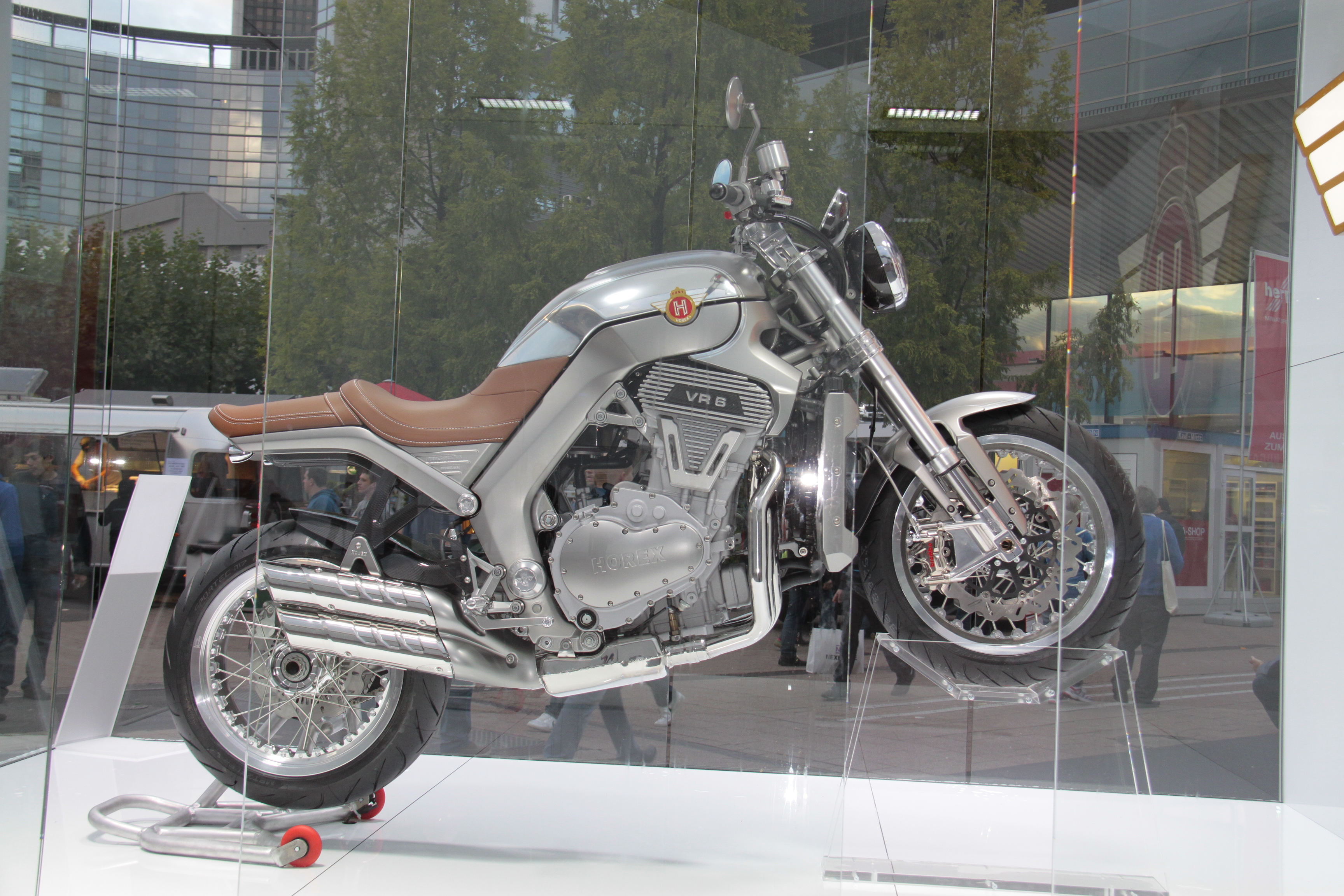 Horex VR6 Silver Edition at the 2015 IAA in Frankfurt